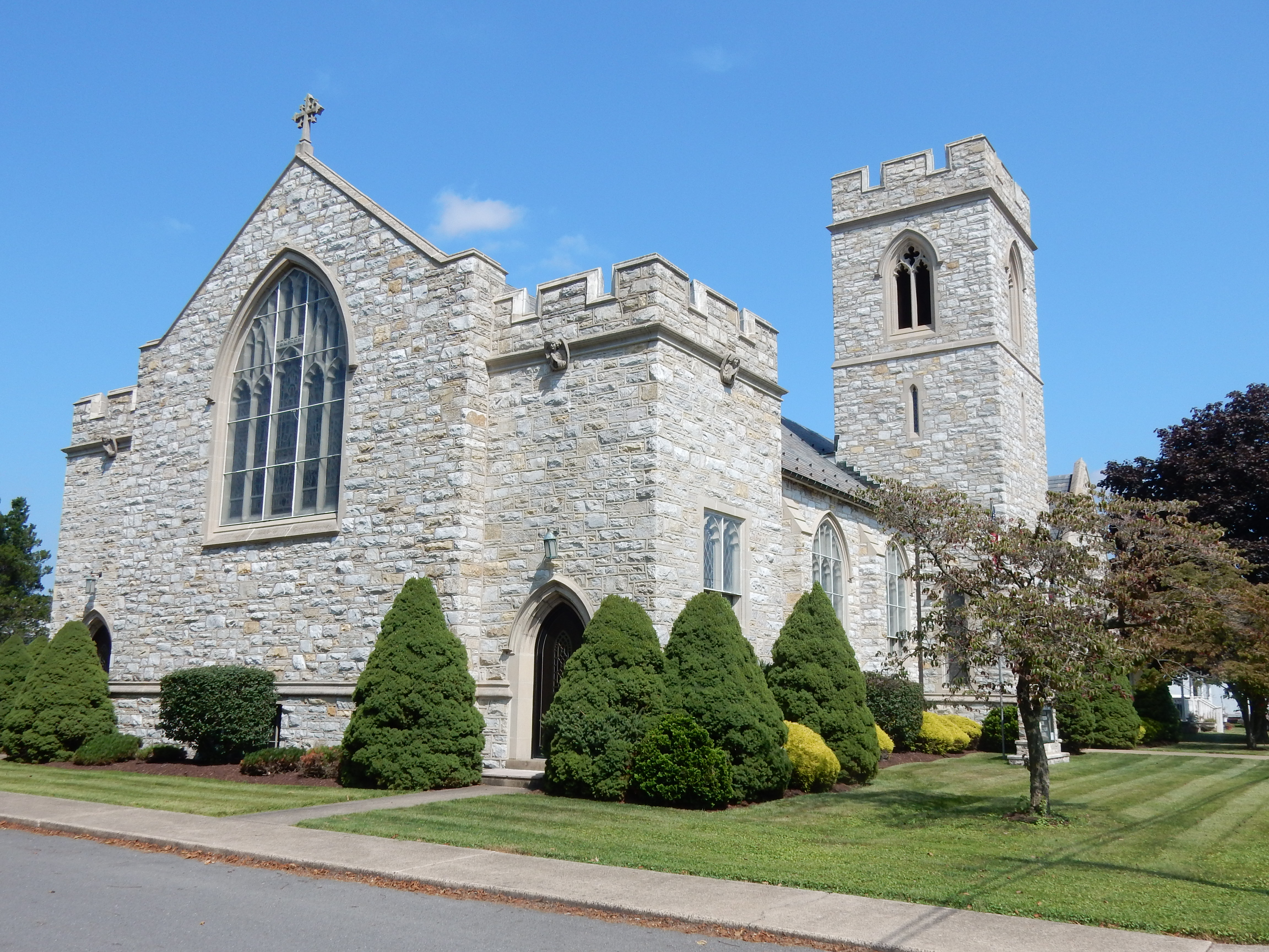 Friedens United Church of Christ, 522 E. Chestnut St., Hegins, Pennsylvania.